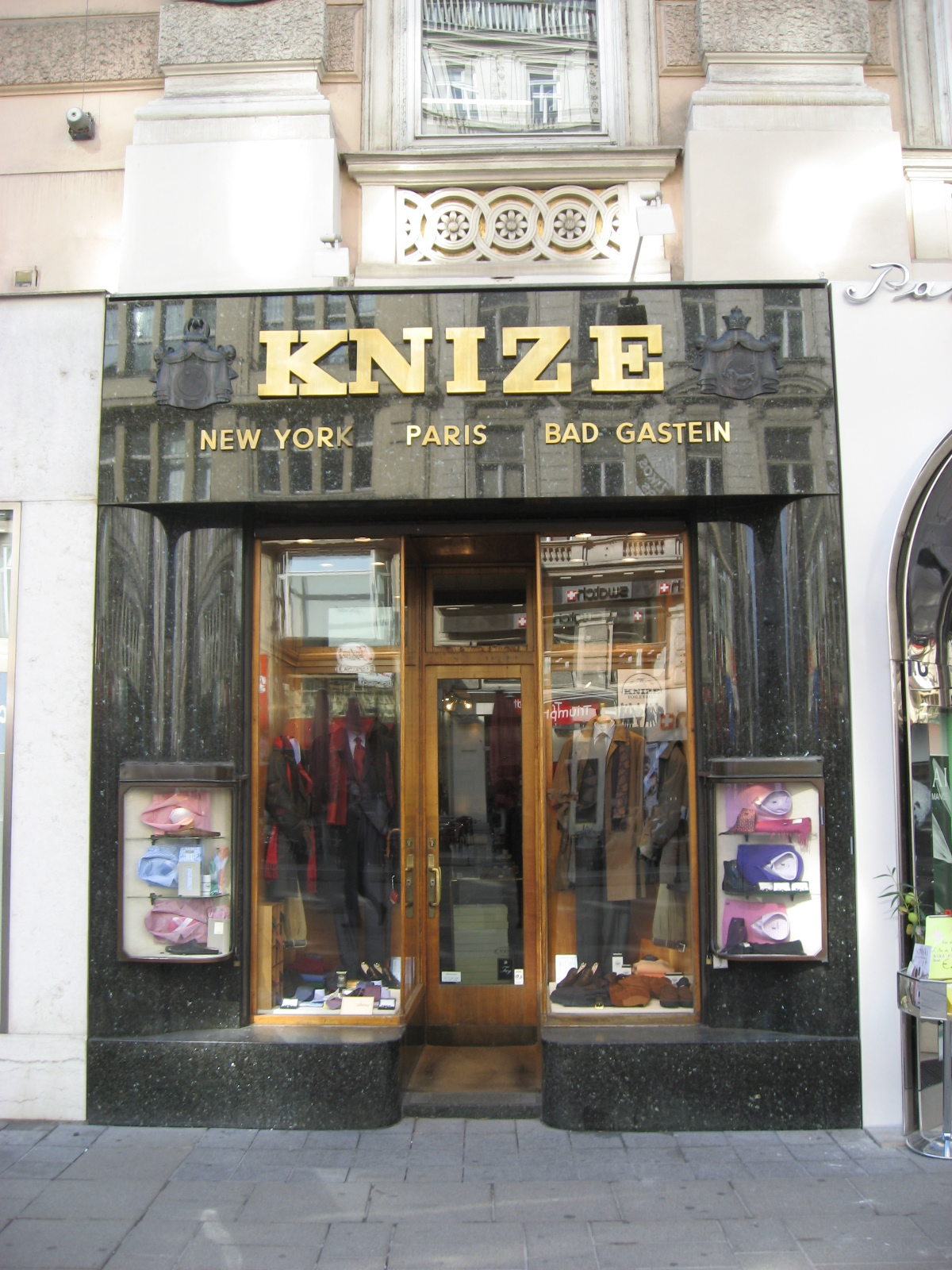 Knize shop at Graben in Vienna's I. district.